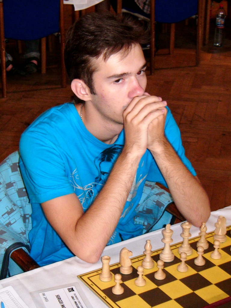 Sergei Matsenko playing in the Olomouc Chess Summer 2010 in Olomouc (Czech Republic)